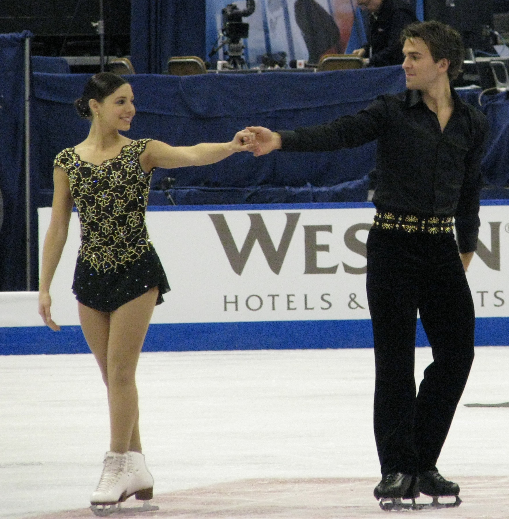 Jessica Dubé and Bryce Davison at the 2008 Skate Canada in Ottawa, Ontario, Canada.